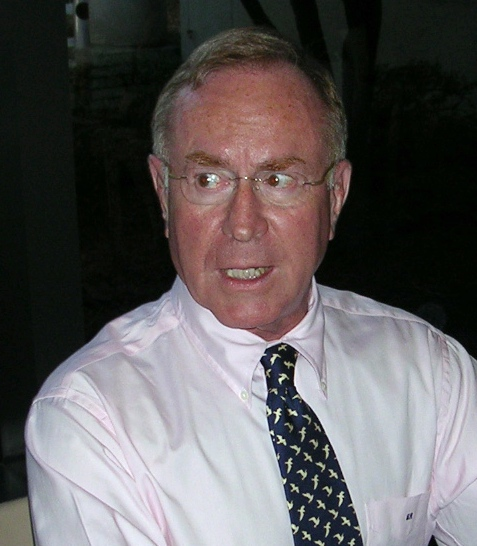 Richard Rhodes at a book signing in Atlanta, Georgia in 2004